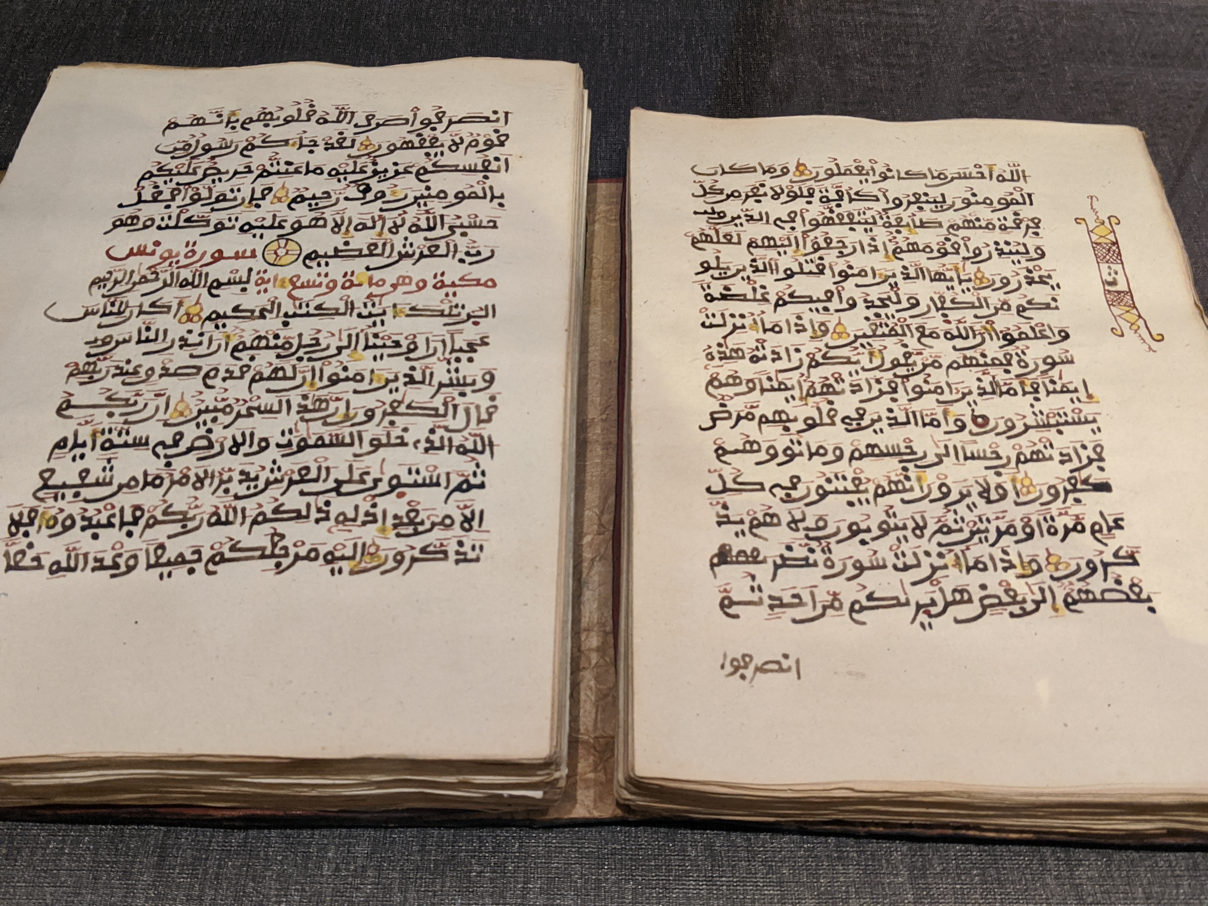 The Quran written in the Maghribi style, from Northern Nigeria, c. 1830-1880. The open pages are the end of Sura at-Tawba and the beginning of Sura Yunus. From Boston Museum of Fine Arts